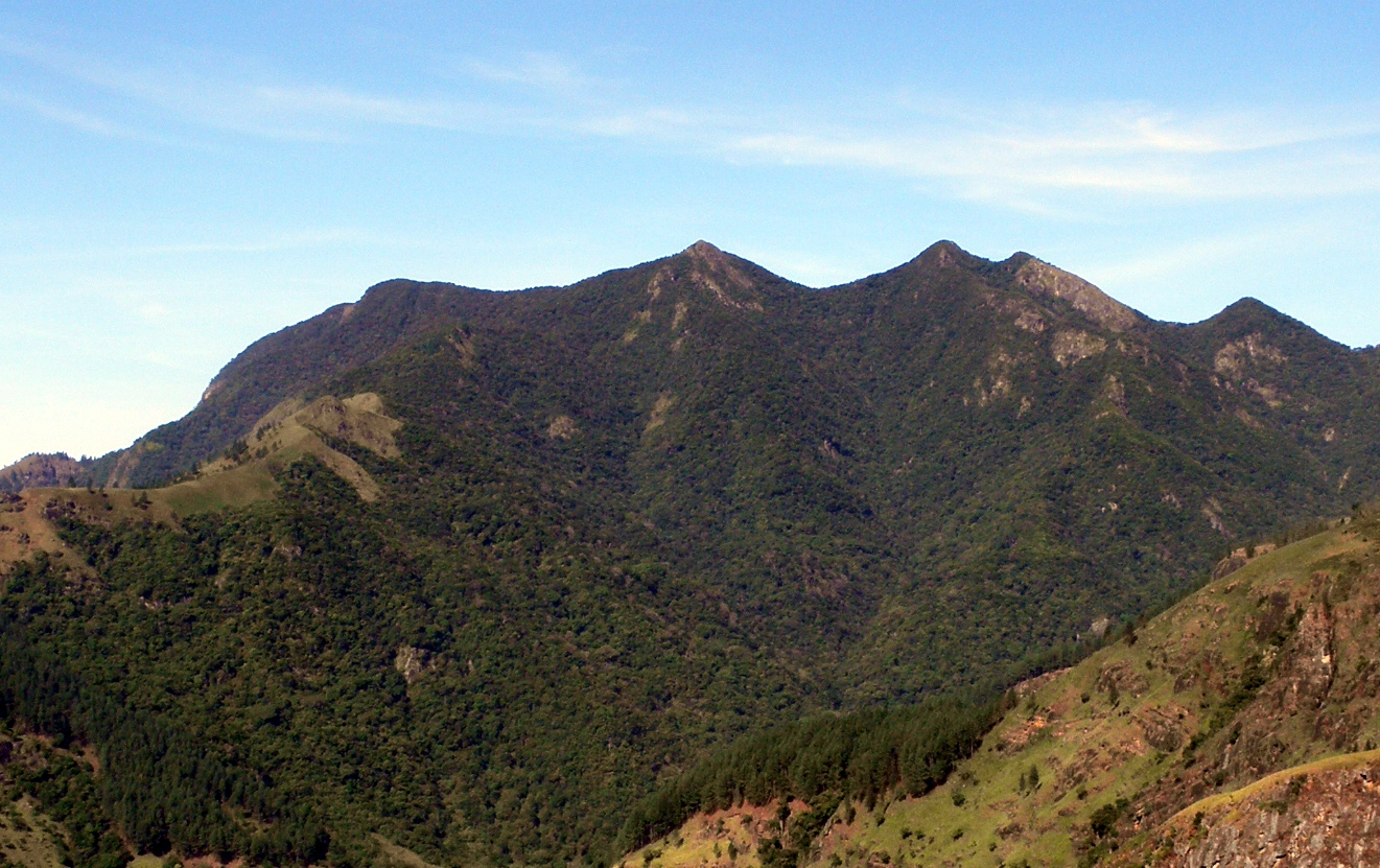 සිංහල: Gommolli and Balathoduwa kanda.